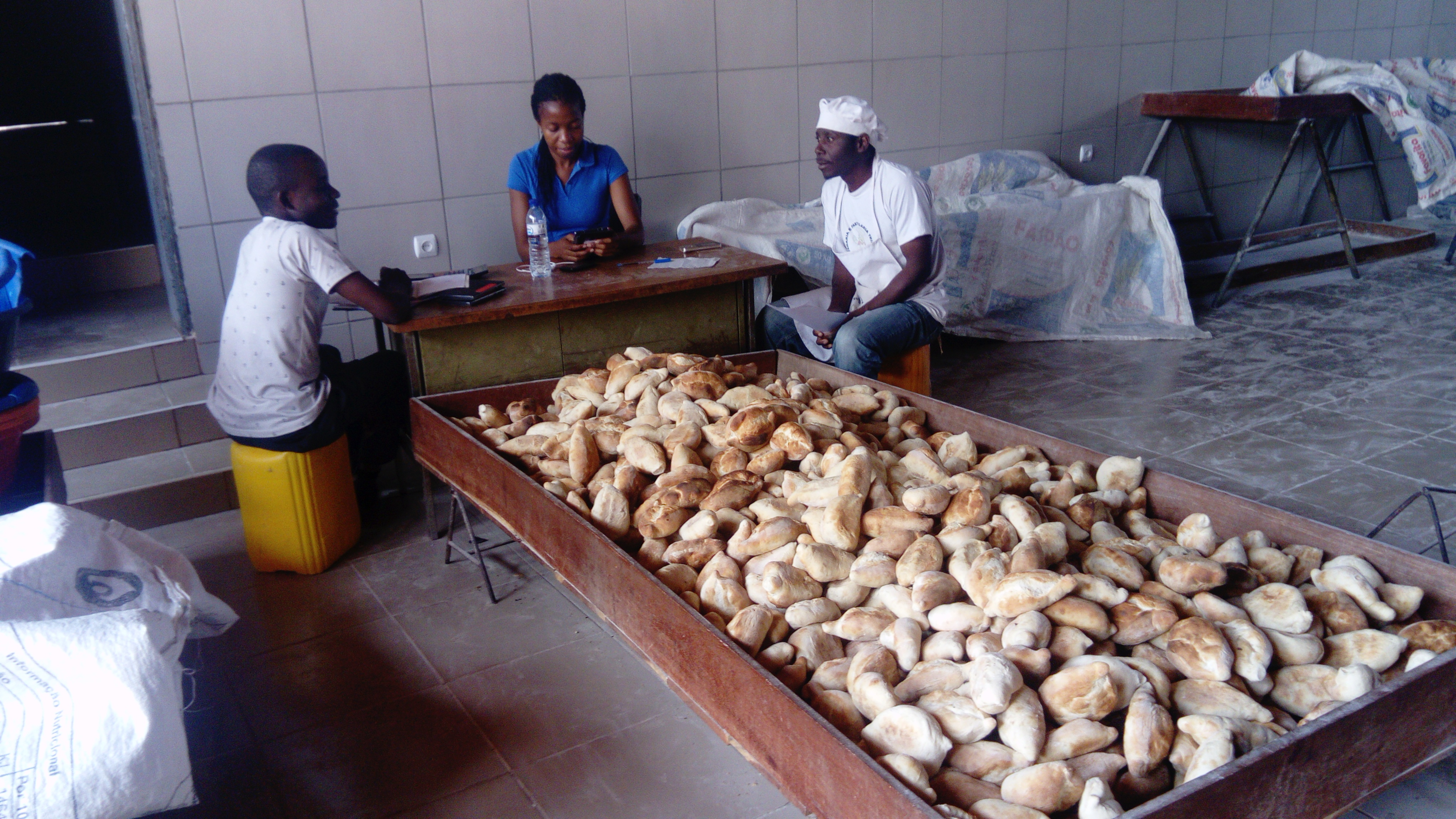 A Mozambican bakery in the village of Dondo This is an image of "African people at work" from Mozambique